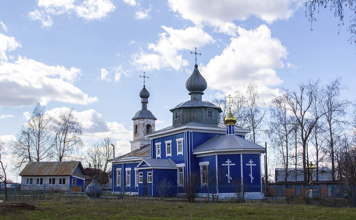 Church of the Nativity of Christ (Cheboksarsky District). Built in 1900 Чӑвашла: Христос Раштавĕн храмĕ (Хыркасси, Шупашкар районĕ). 1900